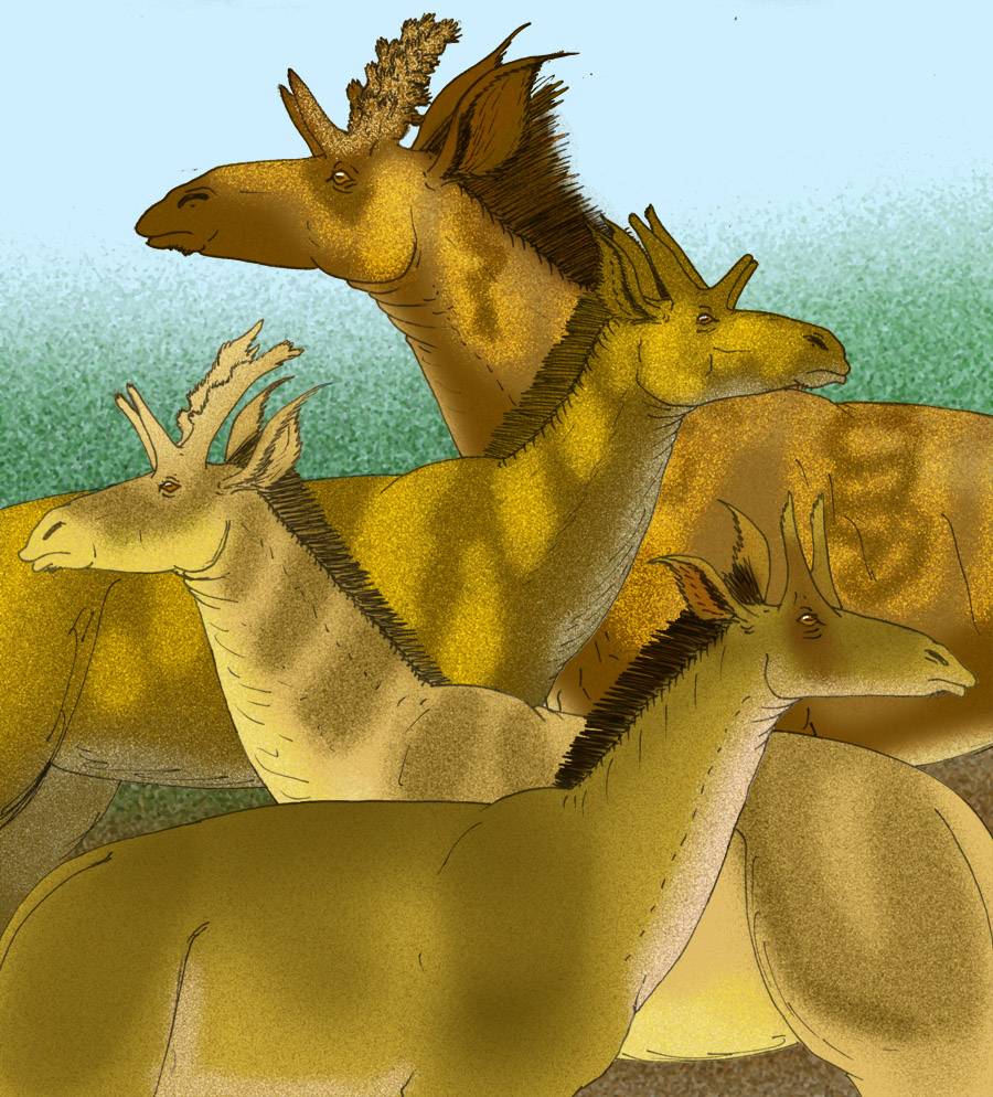 Reconstruction of species of the Late Miocene giraffid Shansitherium, including Shansitherium fuguensis, S. tafeli, and S. quadricornis,, and Palaeotragus microdon of Shanxi Province, China